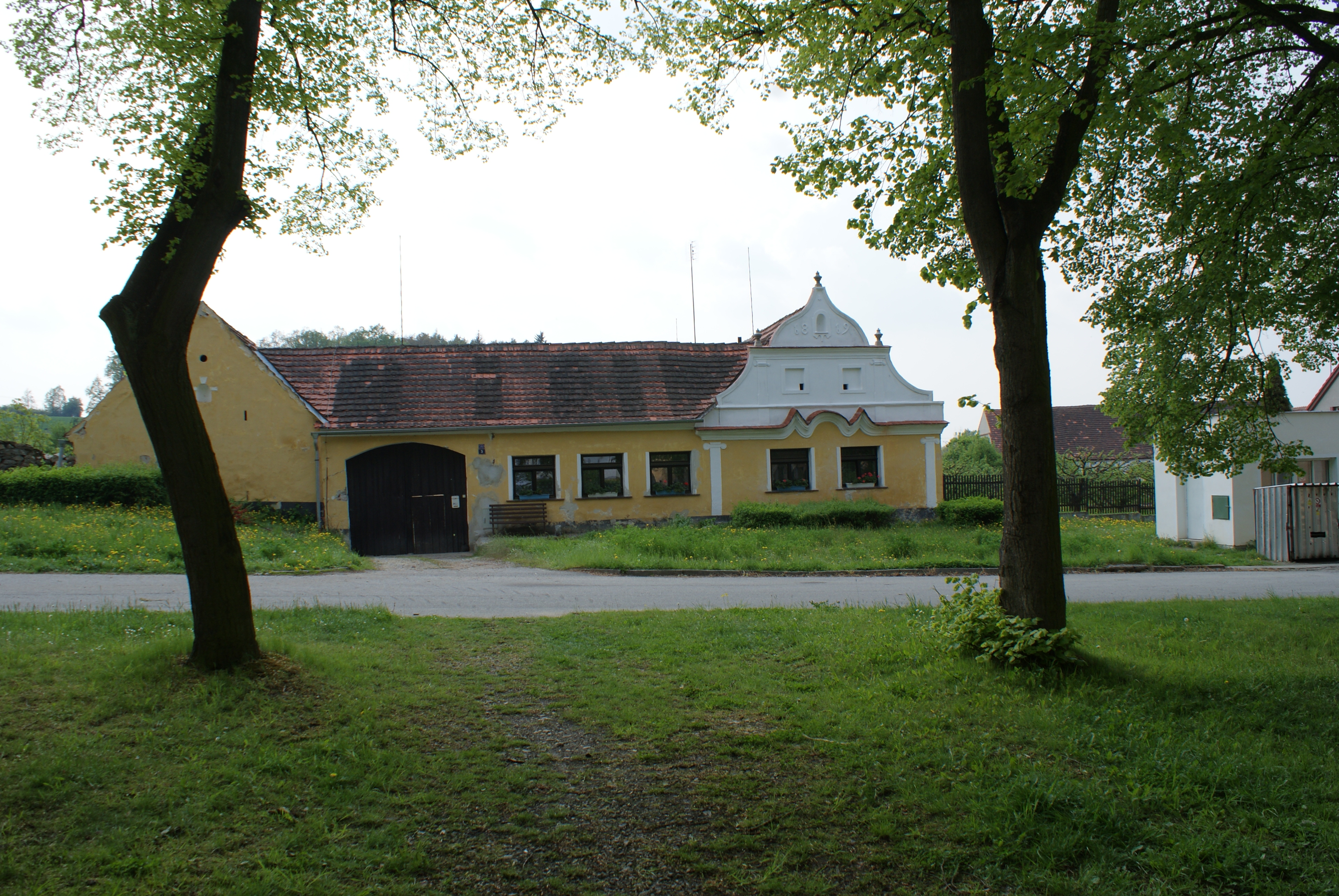 Ražice village in Písek district, Czech Republic. A house on the village common.